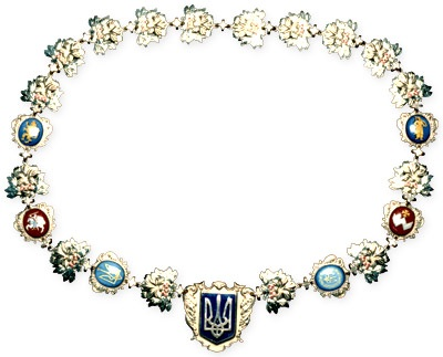 Collar of the President of Ukraine